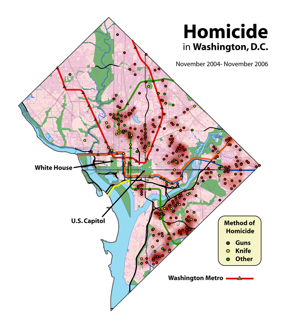 Homicides in Washington, D.C. November 2004 - November 2006